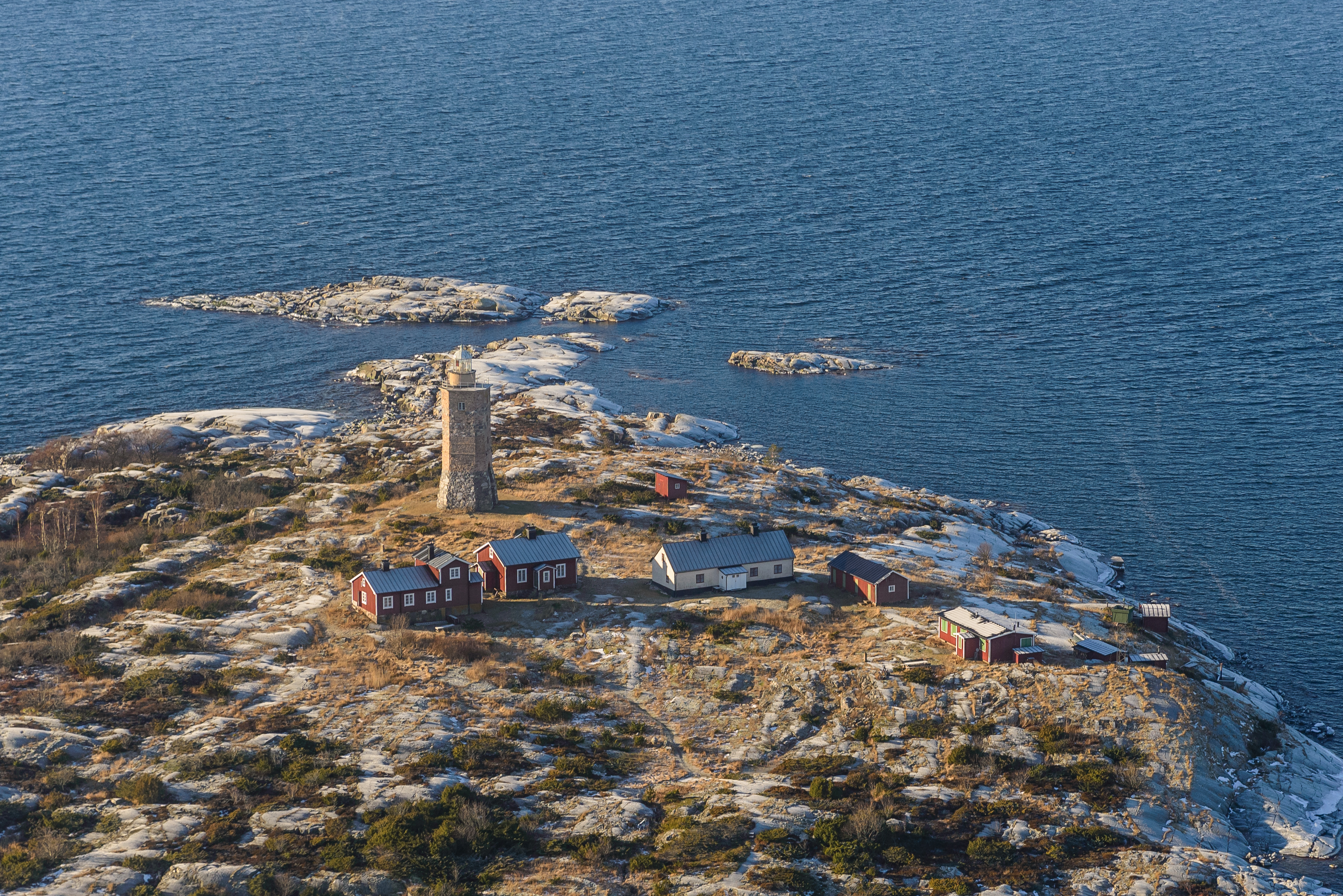 Grönskär (eng: The Green skerry) is a Swedish island and lighthouse station located in the south Stockholm archipelago, east of Sandhamn.